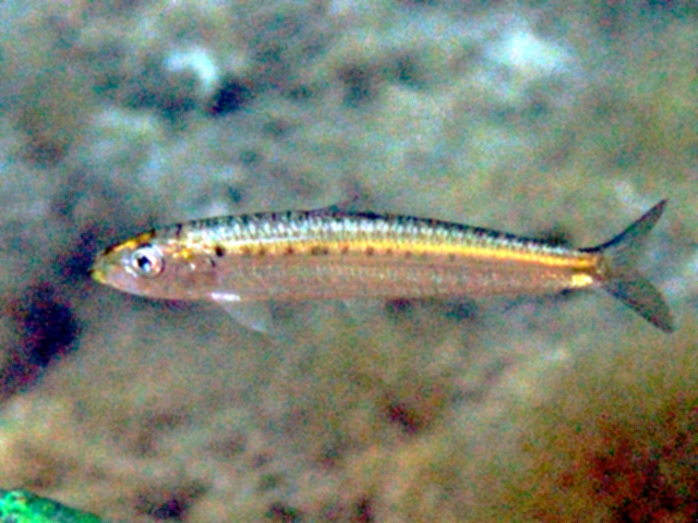 Sardina pilchardus photographed in Sardinia, Italy.